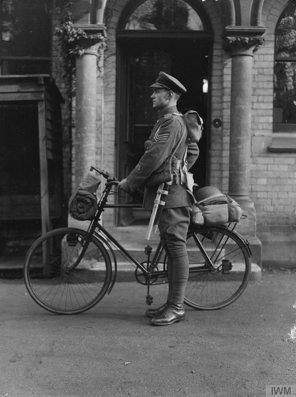 The British Army on the Home Front, 1914-1918 Sergeant of the cyclist battalion of the Dorset Regiment in marching order.